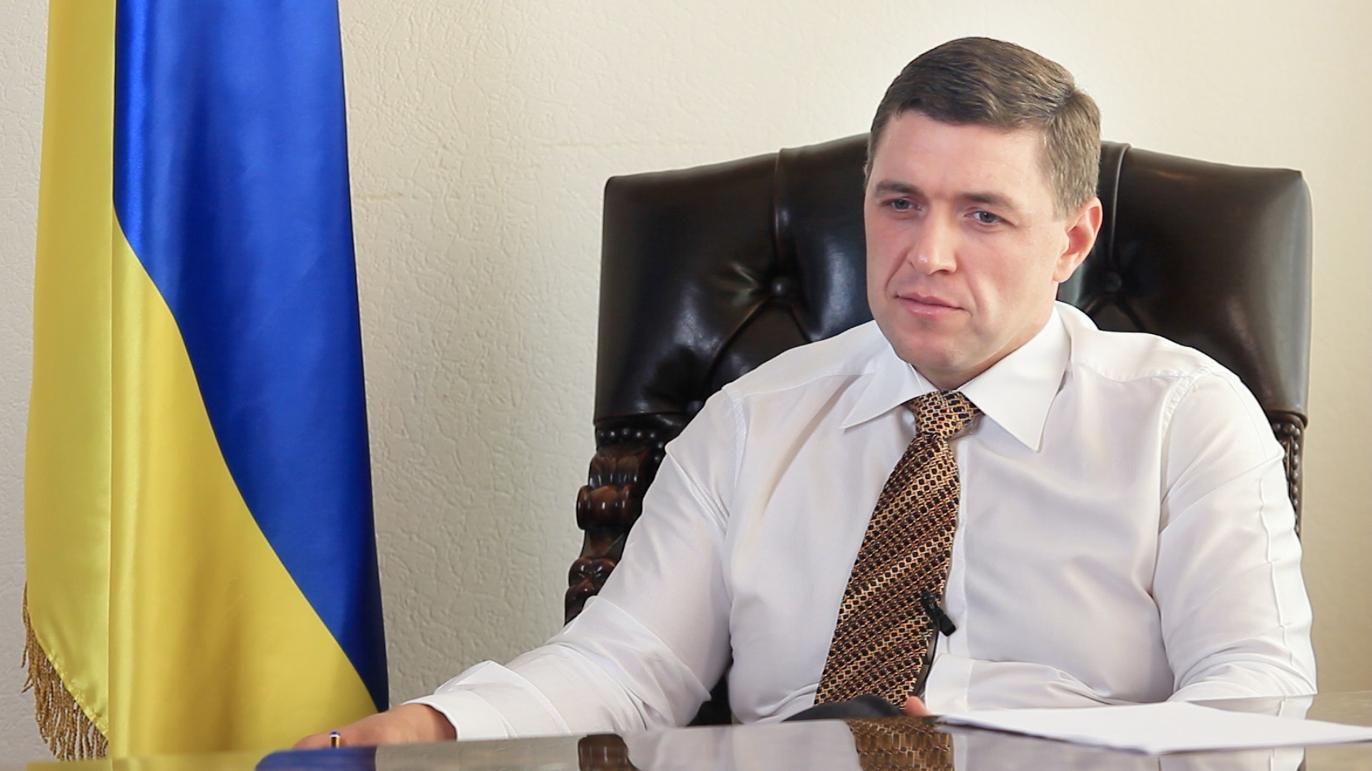 Ukrainian politacan . Ukrainian MP of 6th , 7th convocations